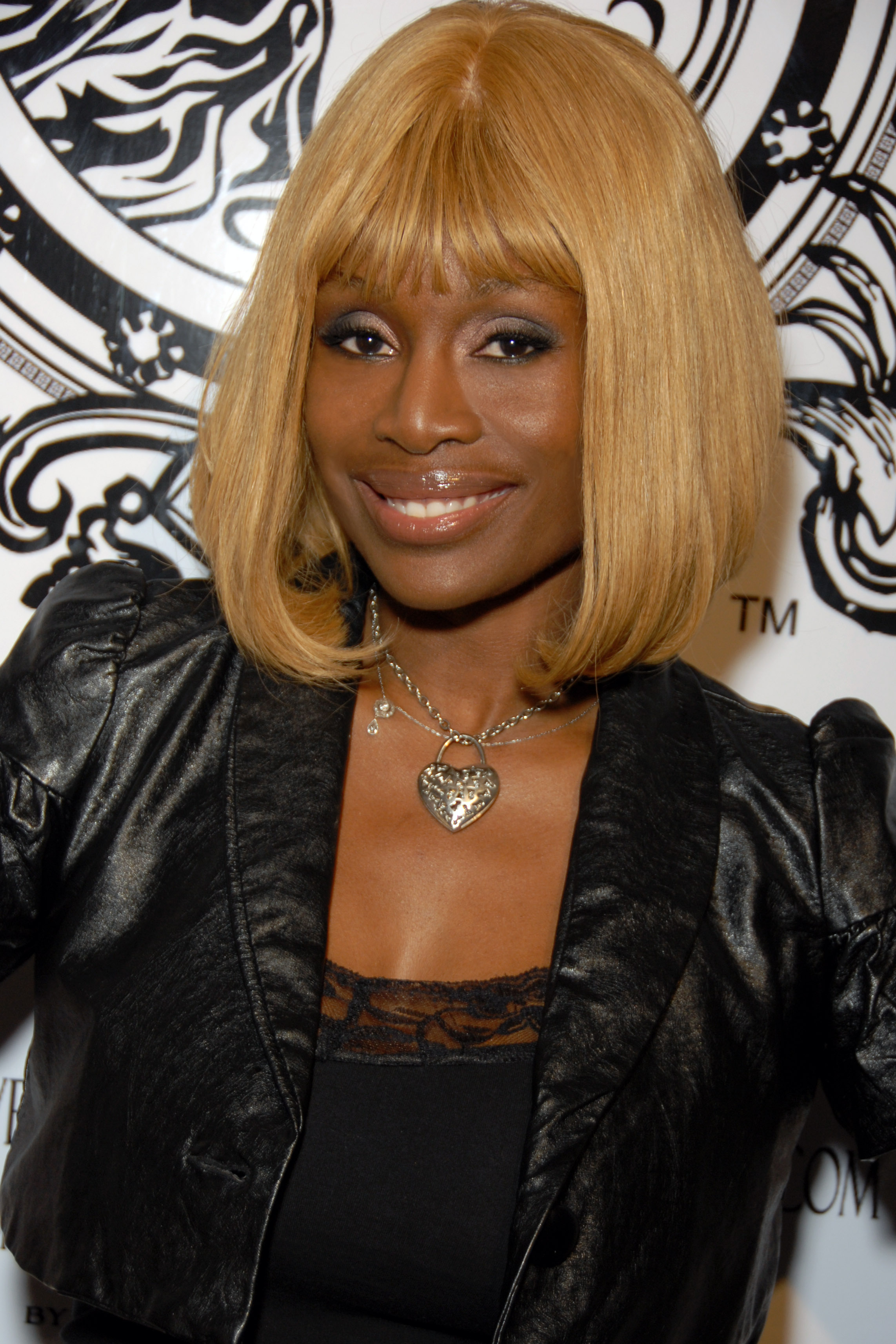 Coco Johnsen backstage just before her fashion show during Los Angeles Fashion Week - Culver City, CA on Oct. 15, 2007 - Photo by Glenn Francis of